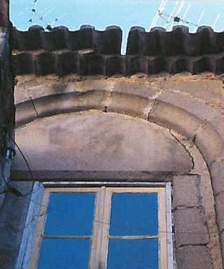 janela da hipotética casa do bispo